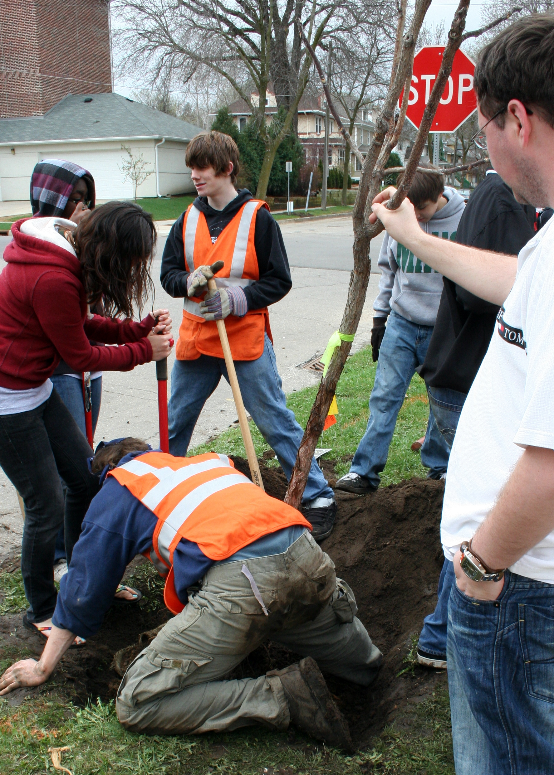 Volunteers planting a tree for Arbor Day on First Street SW in Rochester, Minnesota